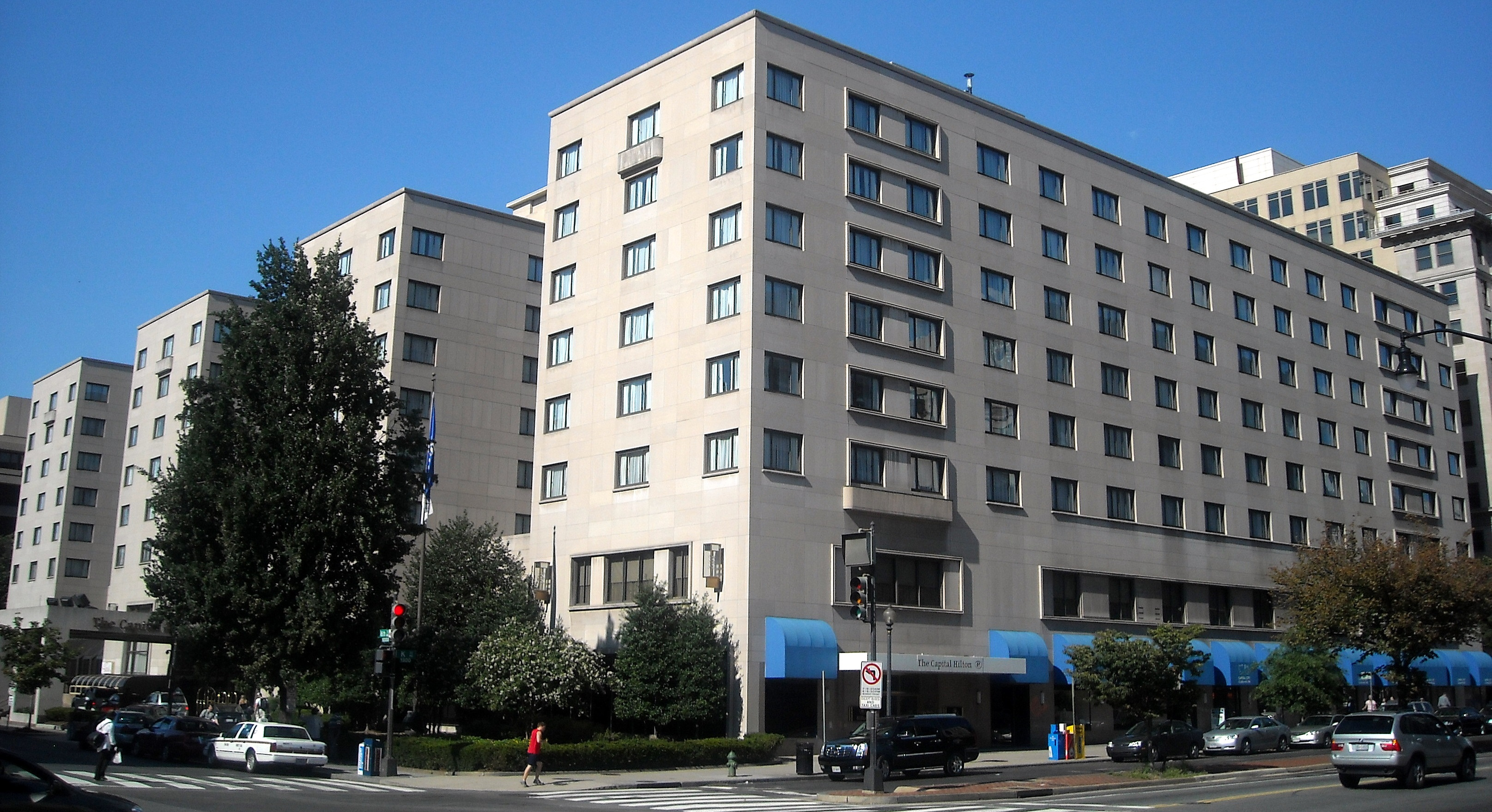 Capital Hilton at 1001 16th Street NW in Washington, D.C.